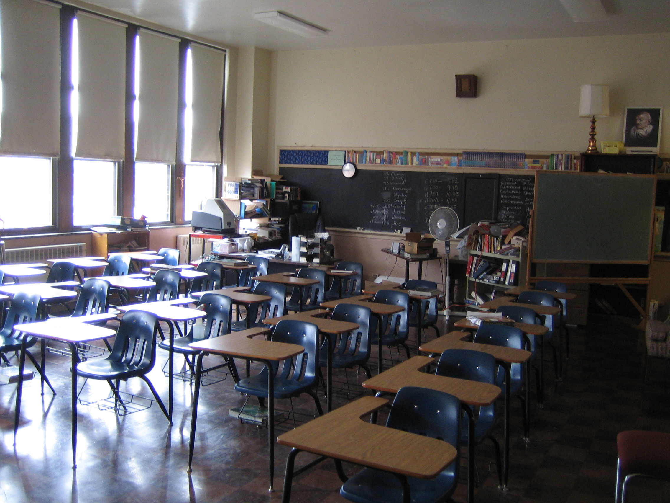 Old Detroit Holy Redeemer 3rd floor classroom after final graduation